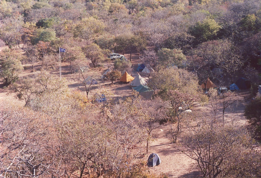 Aerial view of Gordon Park Scout Camp, Matobo Hills, Zimbabwe